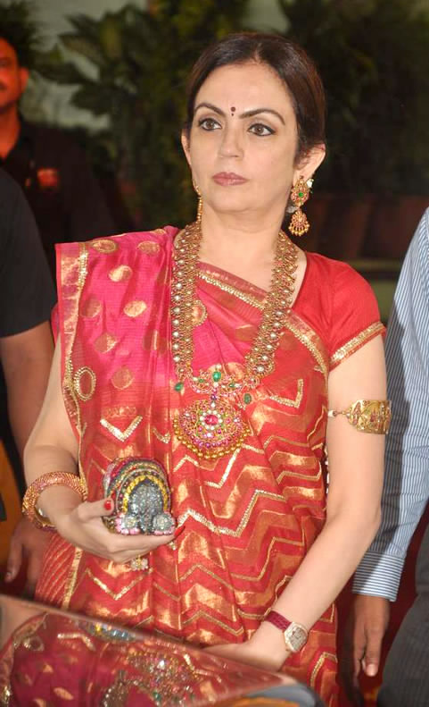 Nita Ambani at Esha Deol's wedding at ISKCON temple